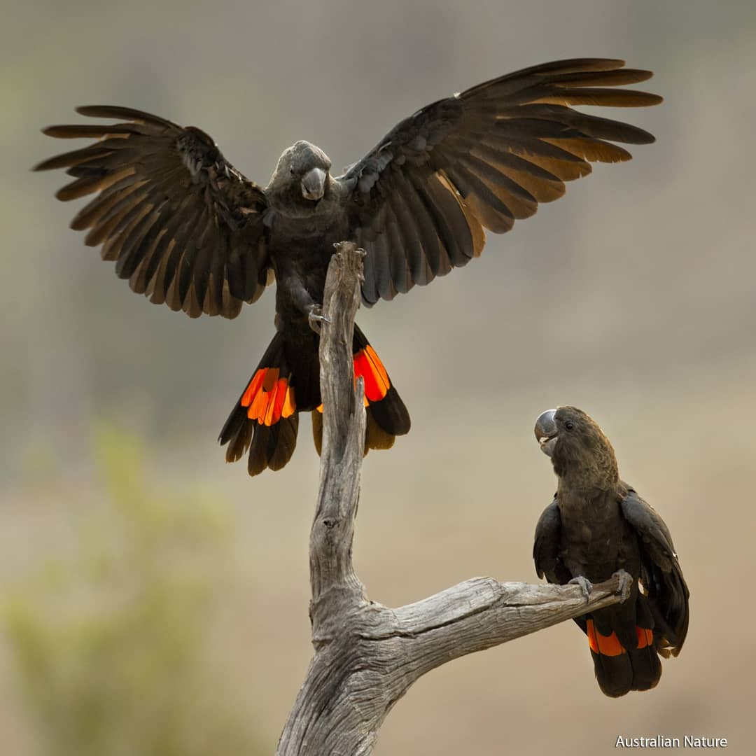 Glossy Black Cockatoos fly in to drink during our devastating bush fires 2020. Two males can bee seen in this frame with their red tail panels visable.